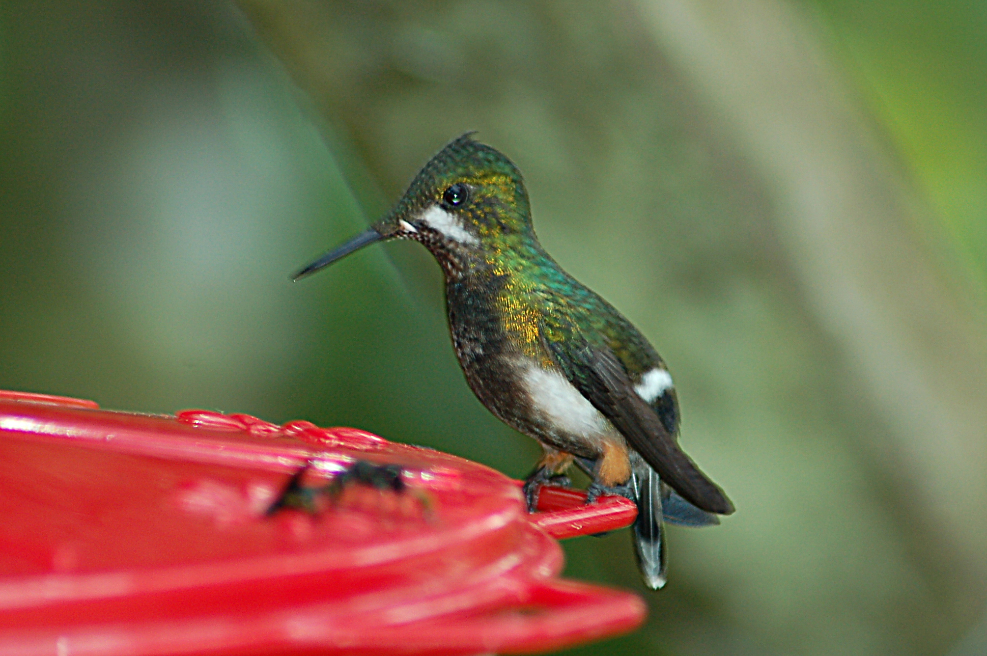 Wire-crested Thorntail (Discosura popelairii) - 14 June 2015 - Wildsumaco Lodge, Napo Province, Ecuador